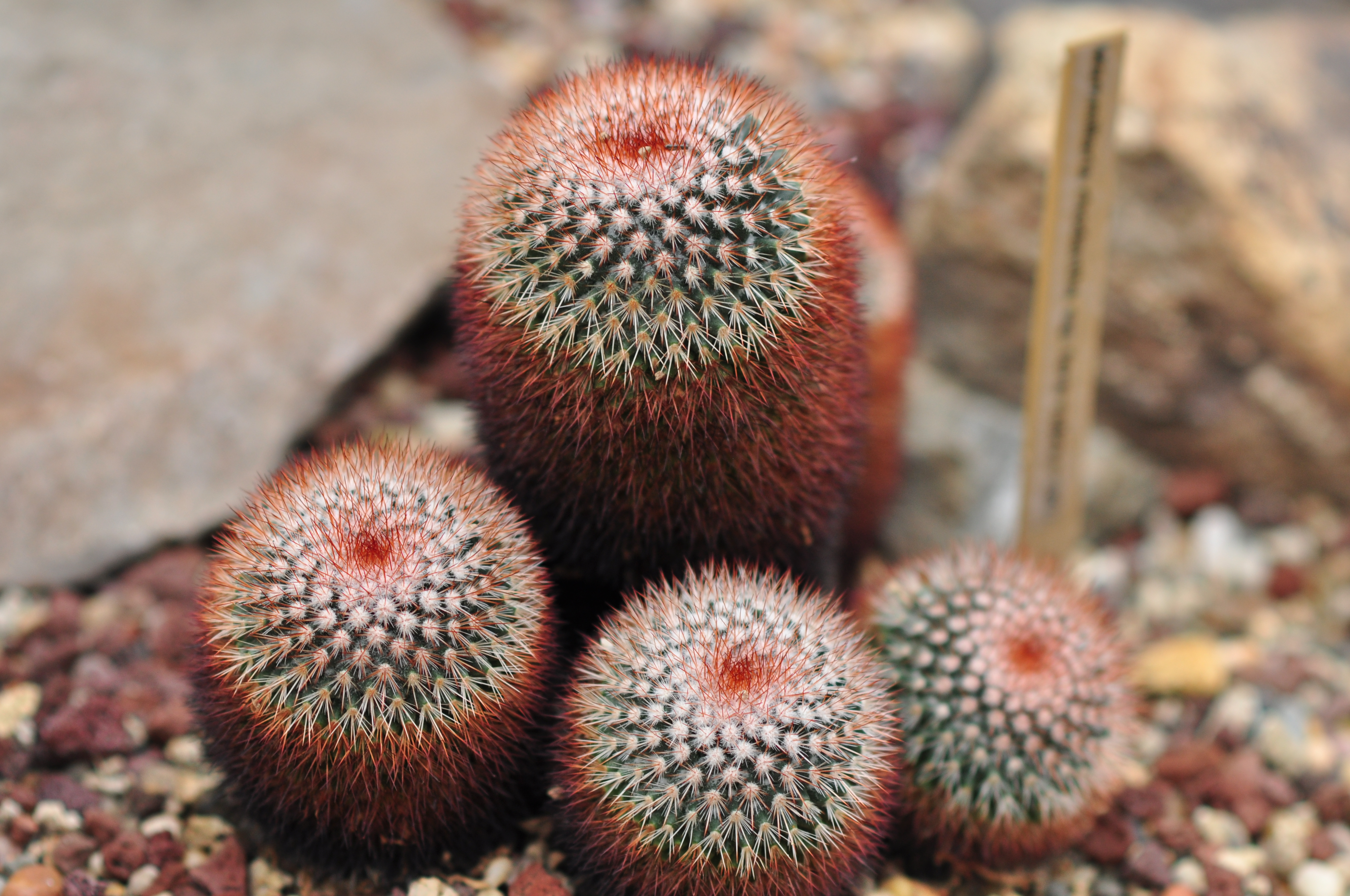 Mammillaria rhodantha ss. fera-rubra, Volunteer Park Conservatory, Seattle, Washington, U.S.